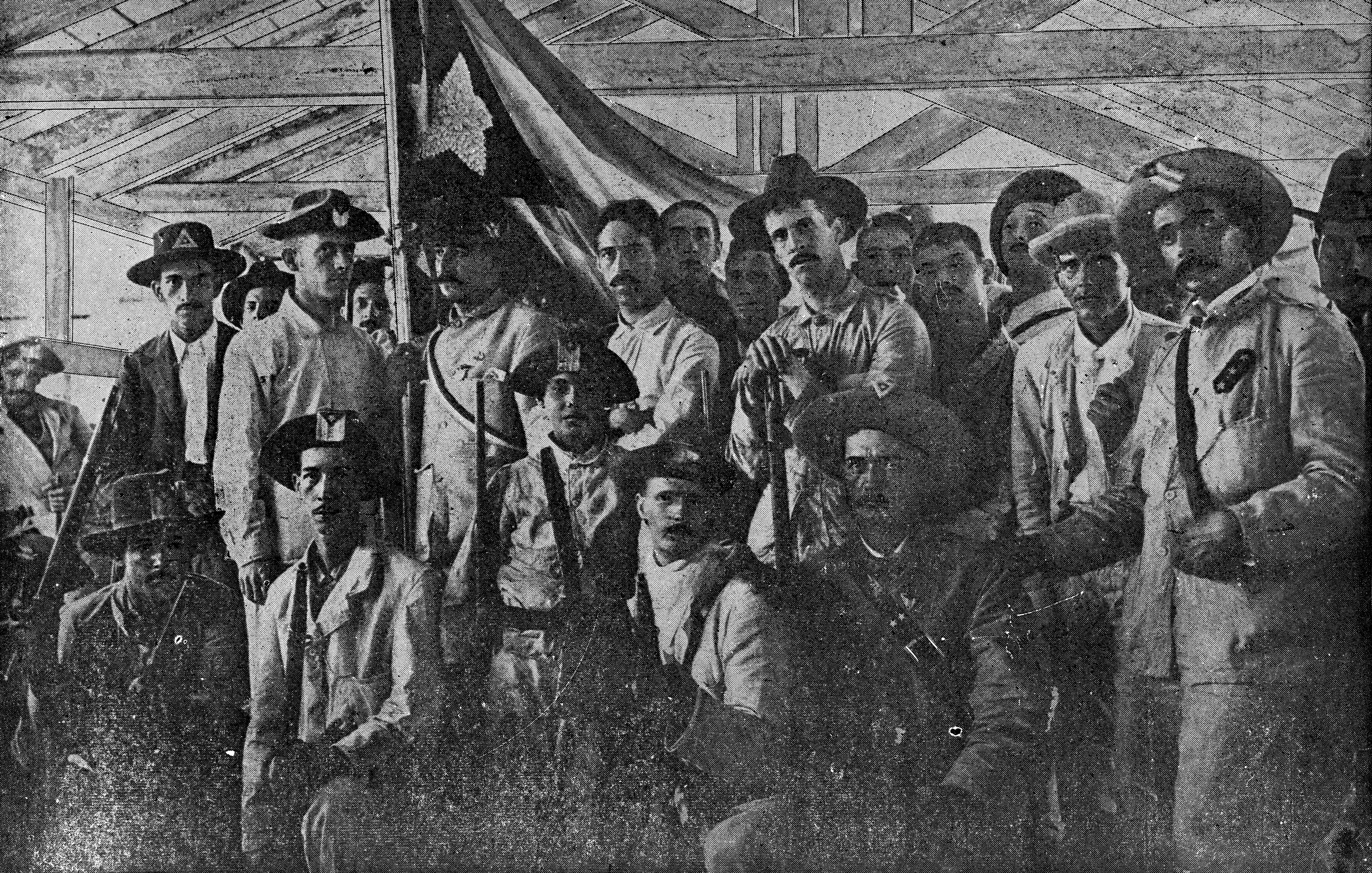 Local call number: N041306 Title: [Cuban volunteers in the barracks] Date of image: 1898. Physical descrip: 1 photonegative : b&w ; 4 x 5 in. Series Title: (General collection) Personal author: Willets, Gilson. General note: Note from caption: "Cuban volunteers in their barracks. Many of these were cigar makers at Tampa." Historical note: The "Army of the Cuban Republic" was made up from 40 Cubans from Jacksonville, 200 from New York, and 150 from Key West. They set sail on the Florida to join the rebels on May 21st. Repository: 500 S. Bronough St., Tallahassee, FL 32399-0250 USA. Contact: 850-245-6700. Persistent URL